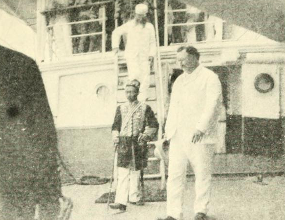 President Taft and the Sultan of Sulu in Jolo, Sulu, March 27, 1901